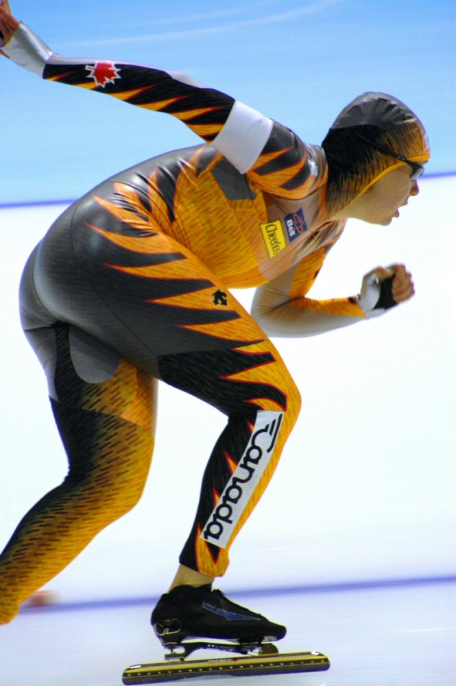 Cindy Klassen at the WCh Allround 2007, Heerenveen (The Netherlands)